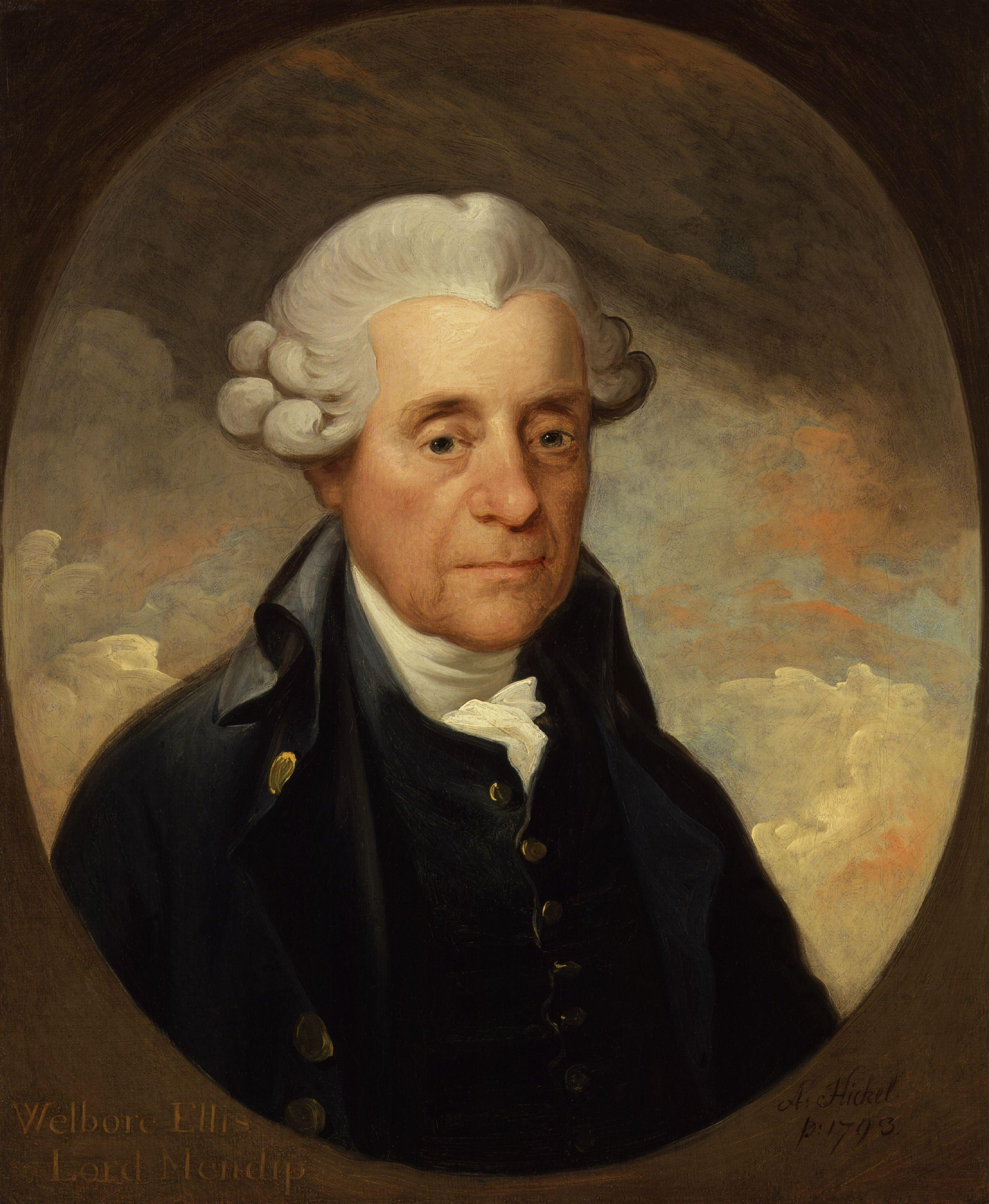 Welbore Ellis, 1st Baron Mendip, by Karl Anton Hickel (died 1798). All images in this batch have been confirmed as author died before 1939 according to the official death date listed by the NPG.